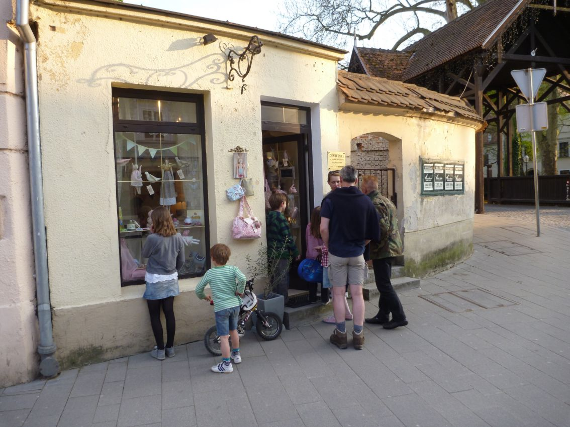 Trg Kralja Tomislava, the towns main palce, left the famous decoration shop "Angelus beatus", right the old wooden bridge to the town museum and park.